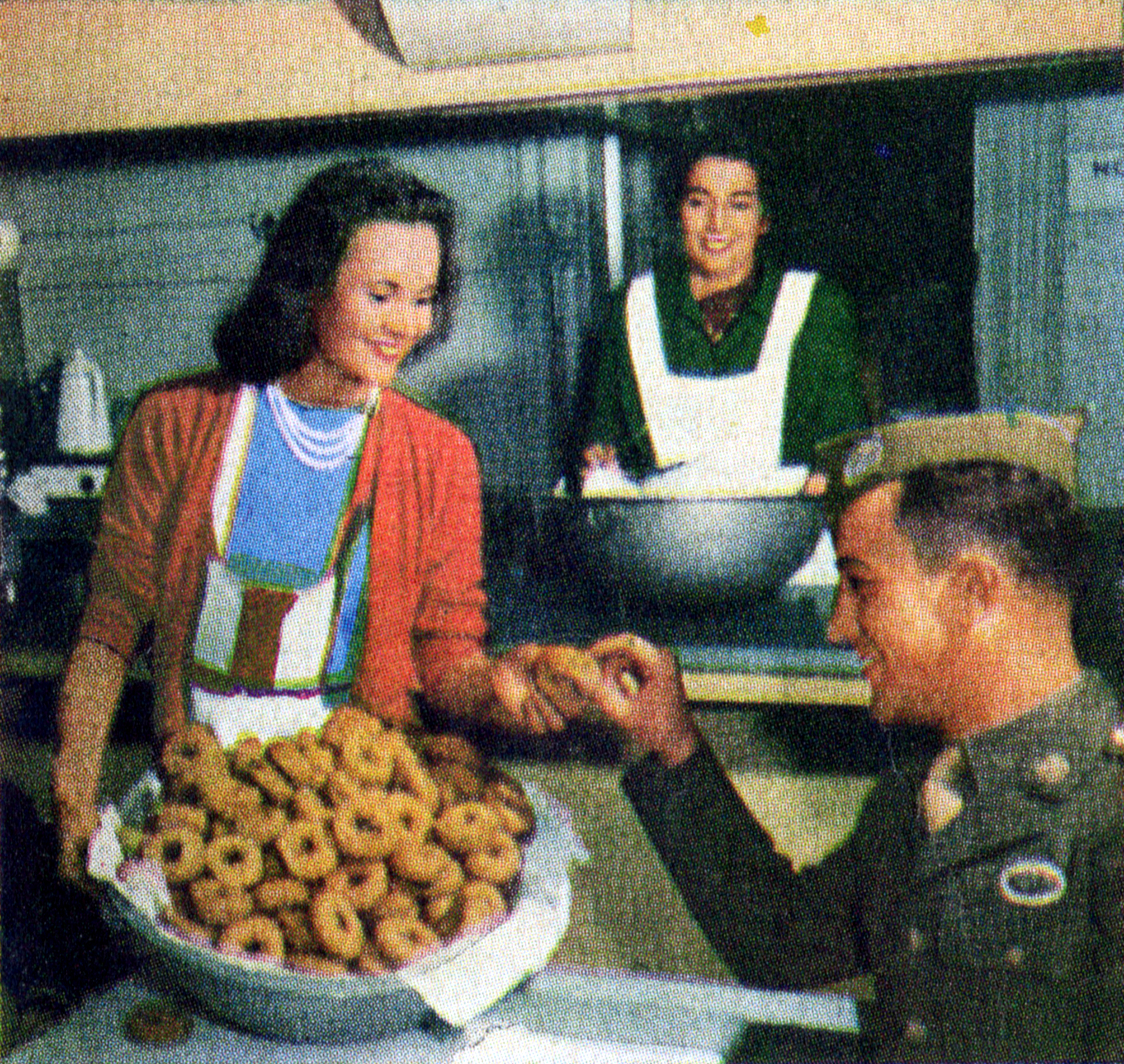 Photograph of Elizabeth Inglis (left) working at the Stage Door Canteen in New York City Photograph appears within the feature "Life Goes to the Stage Door Canteen". Caption reads as follows: Elizabeth Inglise passes out doughnuts, of which 3,600 are consumed weekly. Canteen's most popular drink is milk.